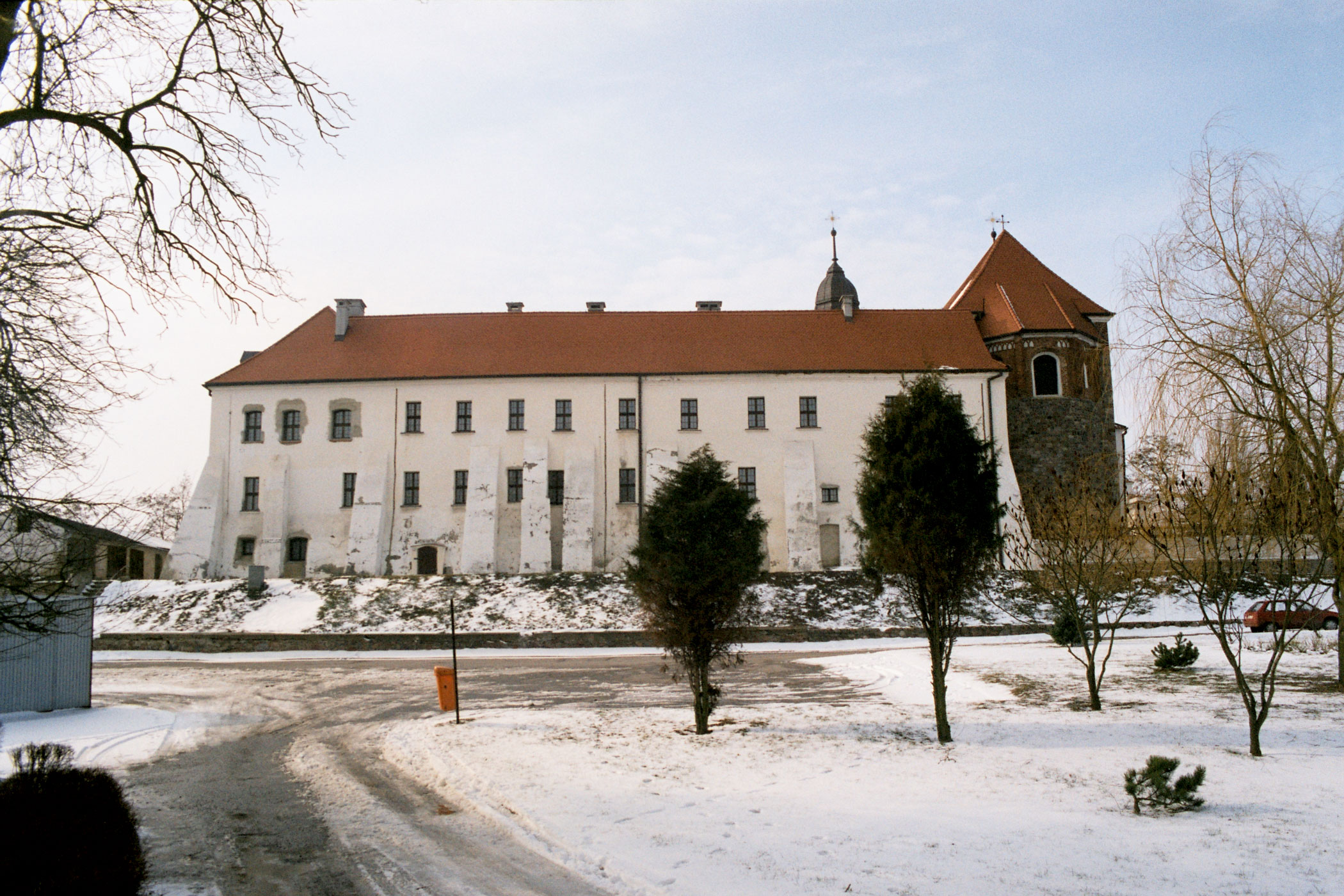 Mogilno, Poland, Benedictine Abbey from east